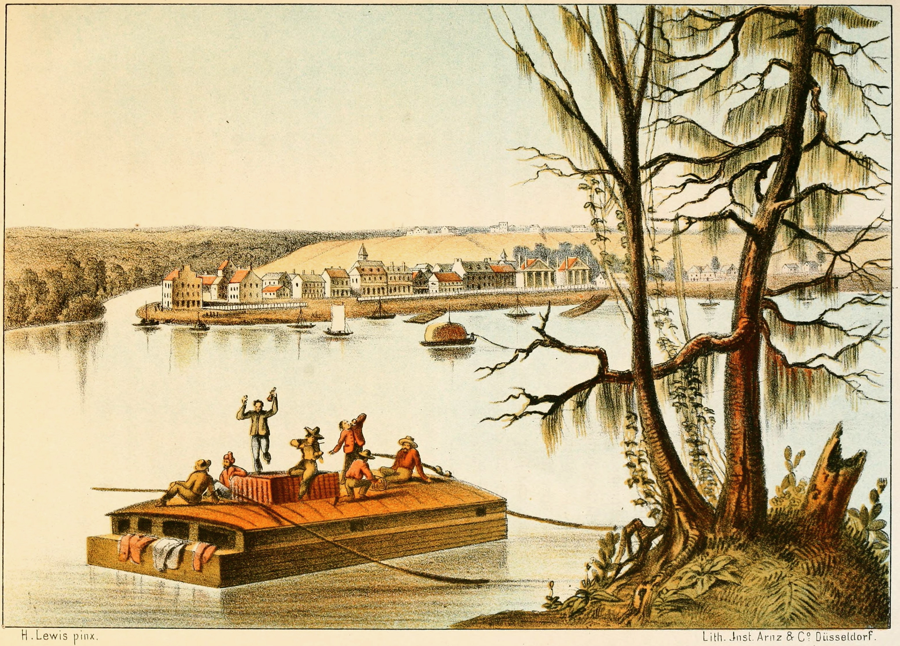 "Bayon Sacra (Luisiana) (Bayou Sacra, Louisiana). Shows town on Mississippi River, 1840s, with flatboat in the river in the foreground; on the boat is are several men, one with a violin, one dancing. Notes: Lithograph probably based on drawings Lewis made on the Mississippi River c. 1846-1848. Location "Bayou Sacra" is probably town of "Bayou Sara" in West Feliciana Parish; St. Francisville on bluff in background.